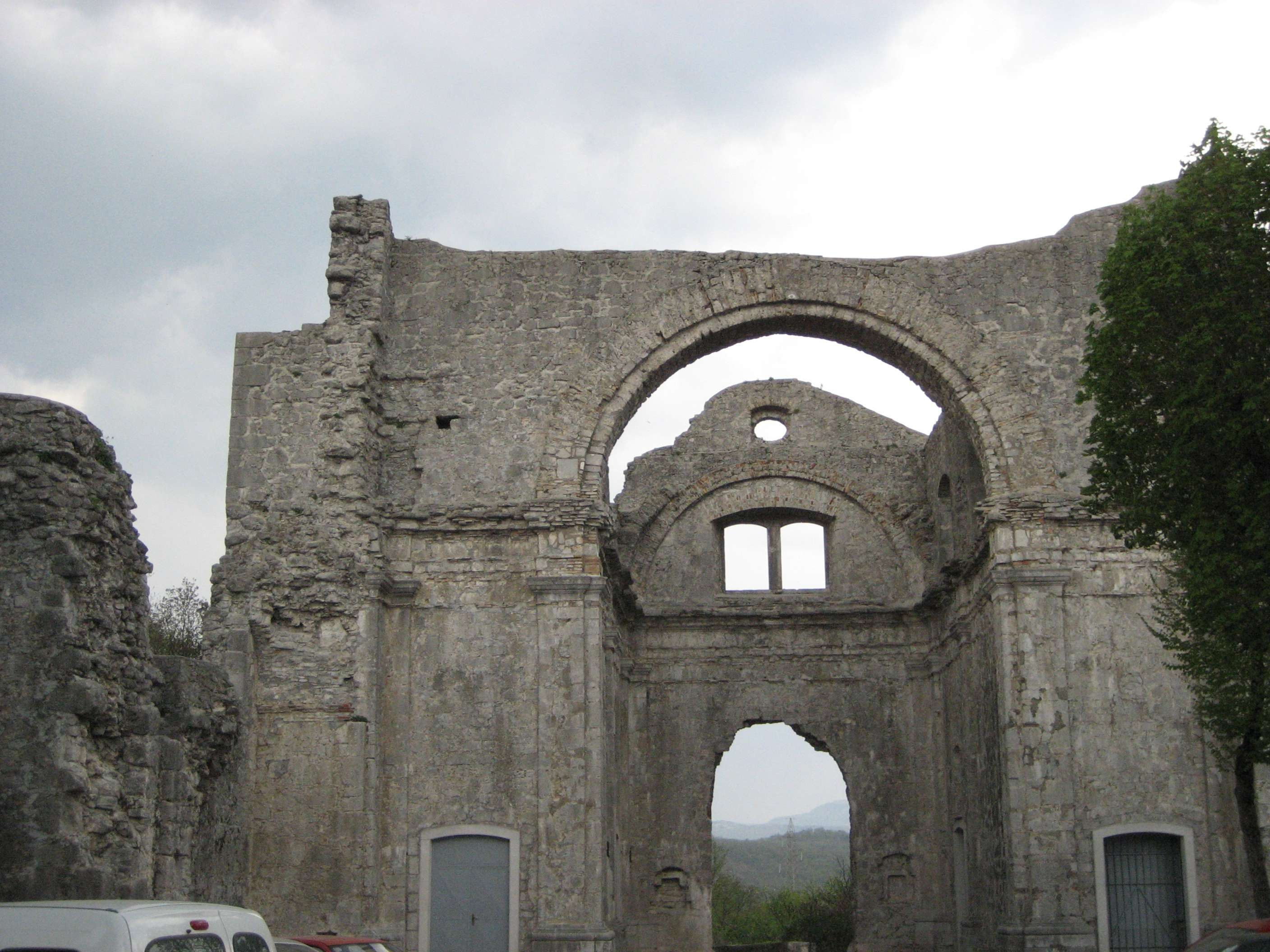 Kastav